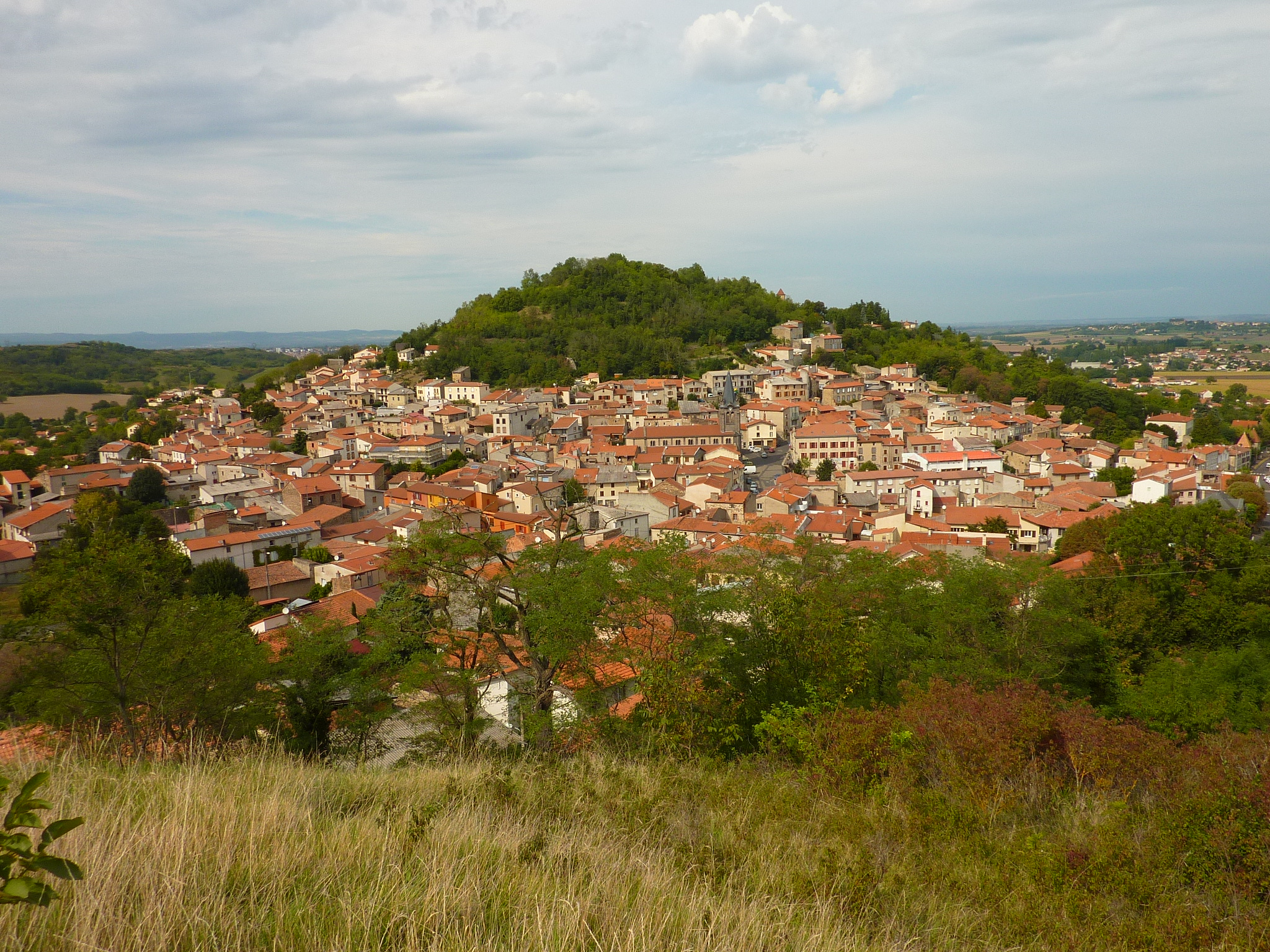 Vertaizon from the Challat volcanic cone